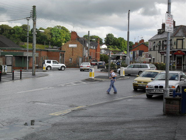 Railway Street, Armagh Along Railway Street looking towards the city centre and Lonsdale Road.